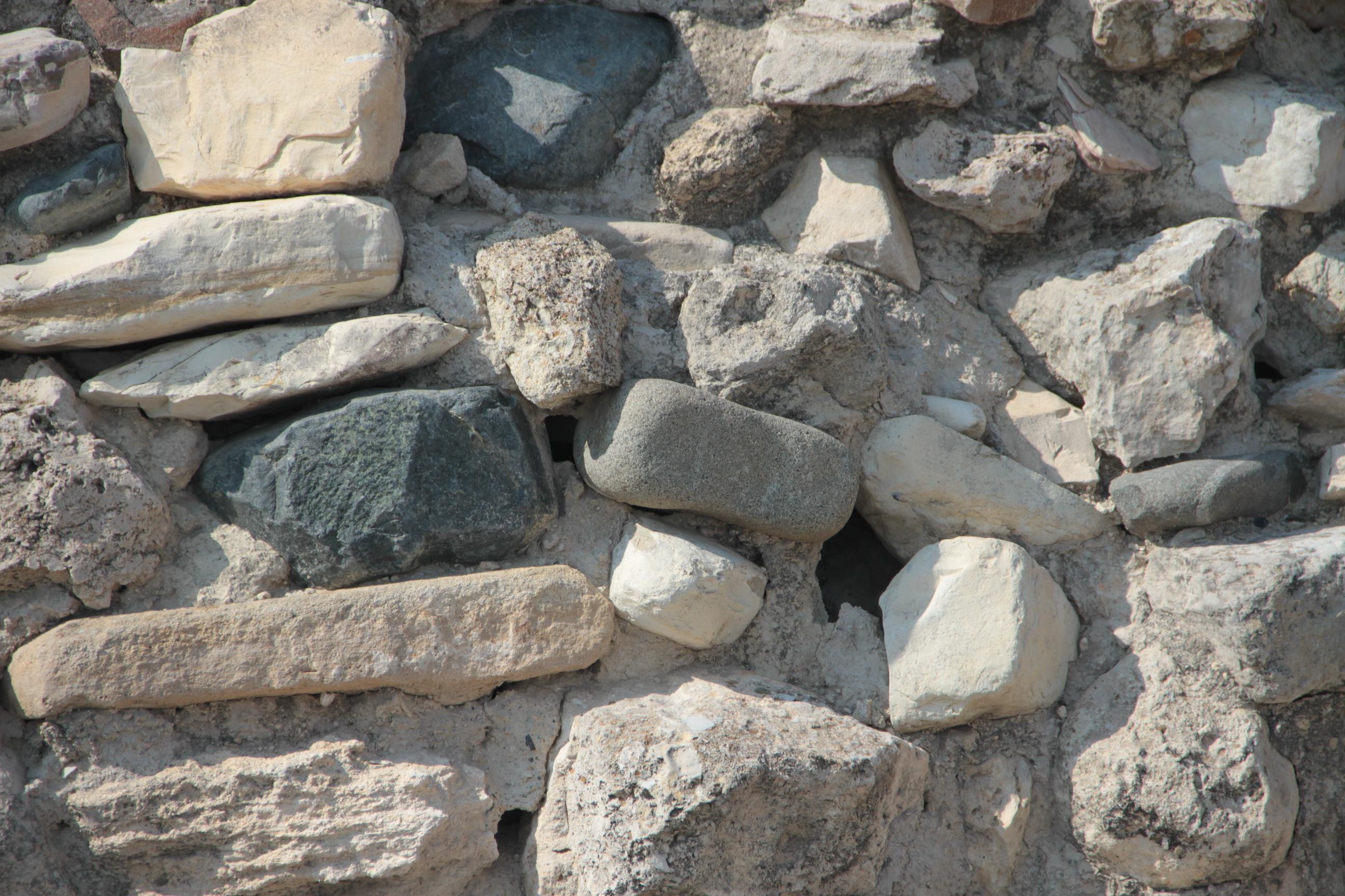 UNESCO world heritage site. Houses from circa 6000 BC. Located approx 30Km SW of Larnaka, Cyprus